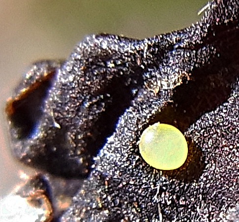 Attelabus nitens from France Monts de l'Espinouse at 2011-06-11, egg in oak-leaf